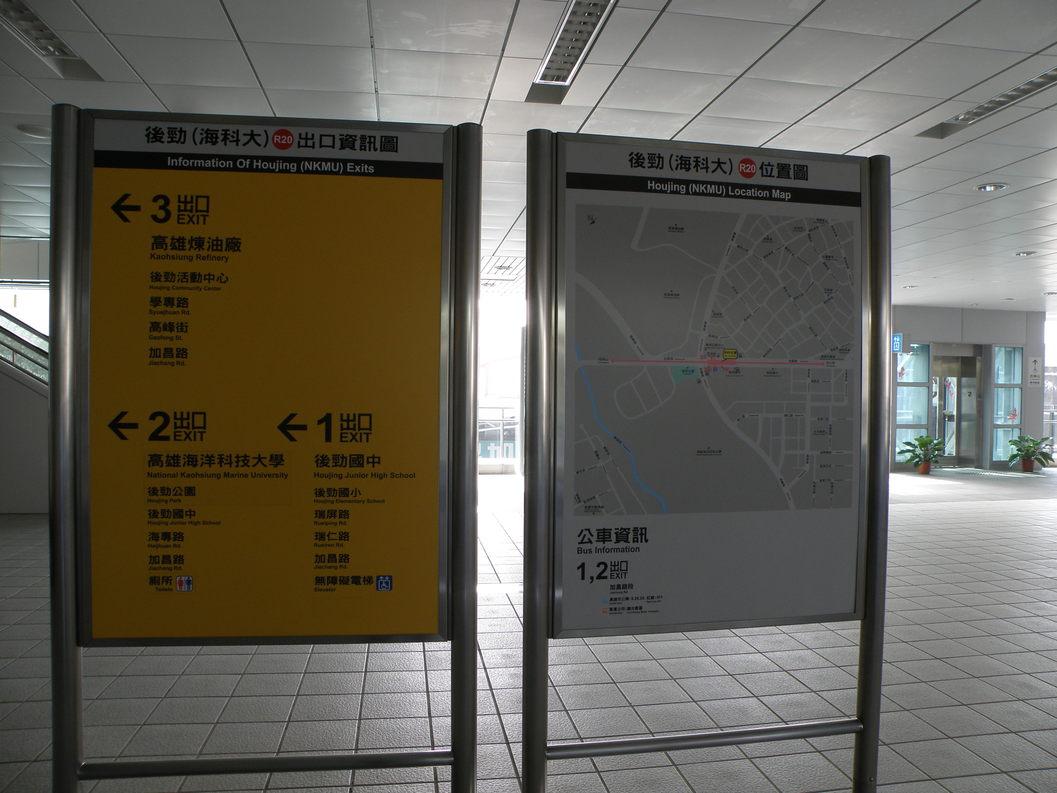 Location Map of Houjing Station, Kaohsiung Mass Rapid Transit.